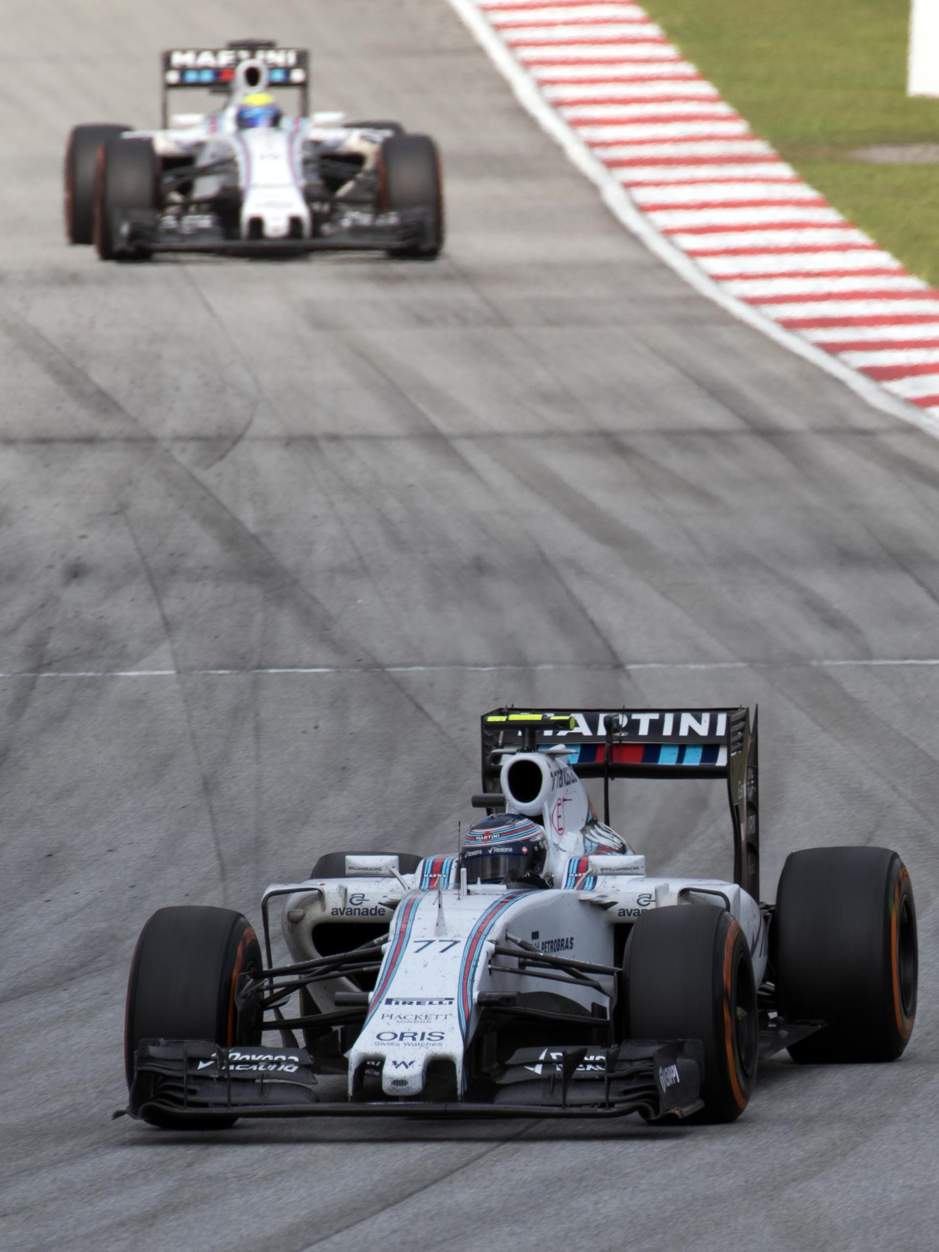 Formula One 2015 Rd.2 Malaysian GP: Valtteri Bottas and Felipe Massa (WilliamsF1)